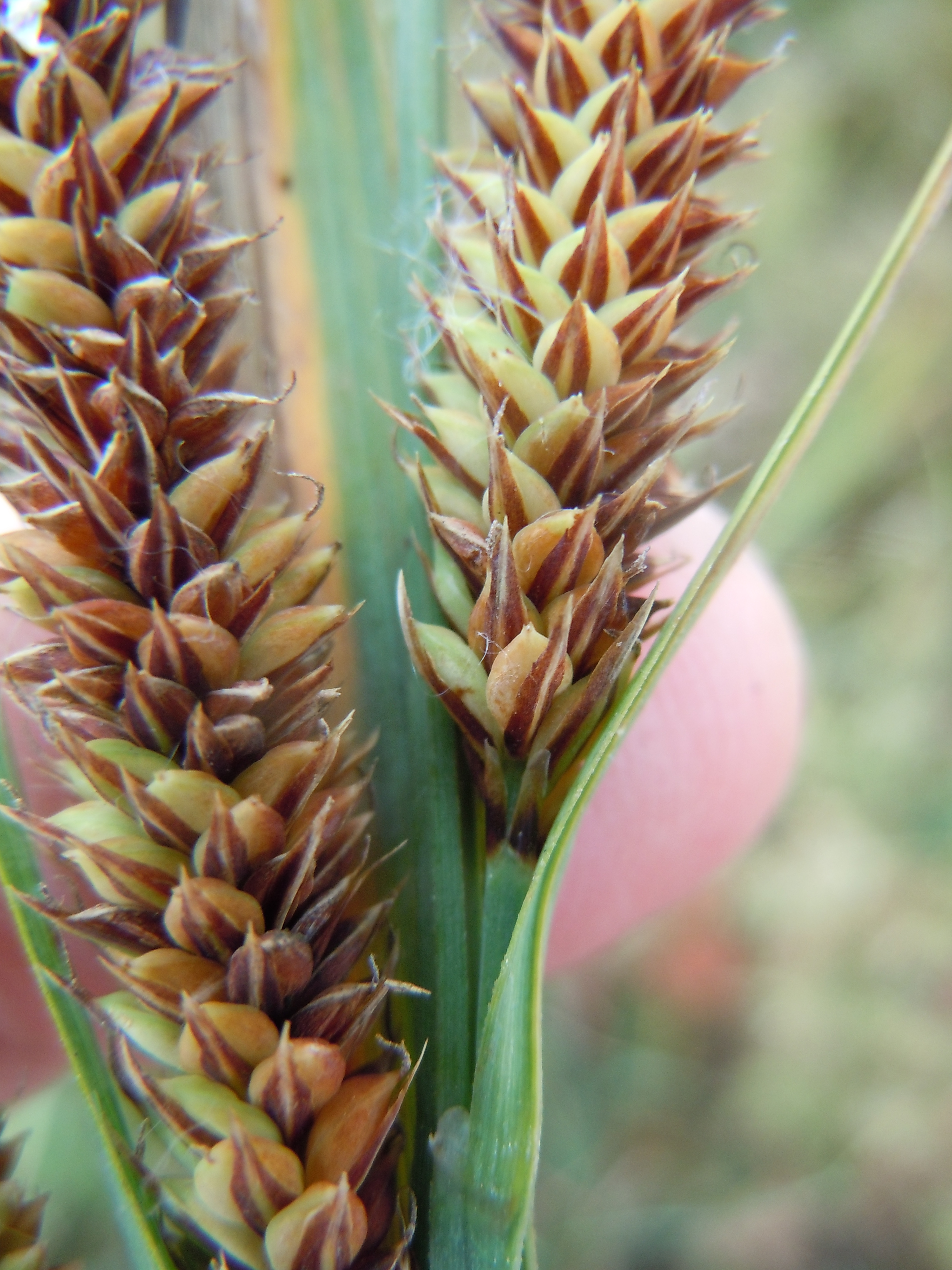 The perigynia is dorsally flattened, the achene is lenticular (2-sided rather than 3-angled), and the style branches number only two. This is distinctive for species of Carex with distinctly pedicellate spikelets.